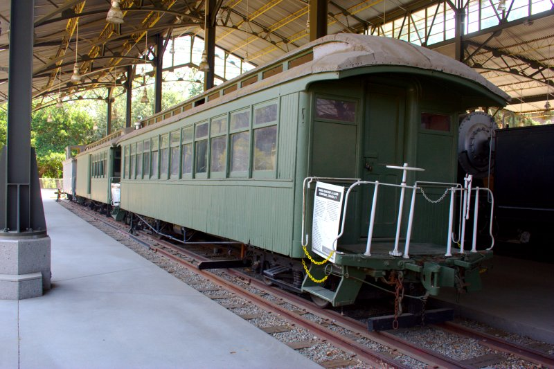 A coach, combine and caboose from the Oahu Railway and Land Company of Hawaii preserved at Travel Town Museum in Griffith Park, California.